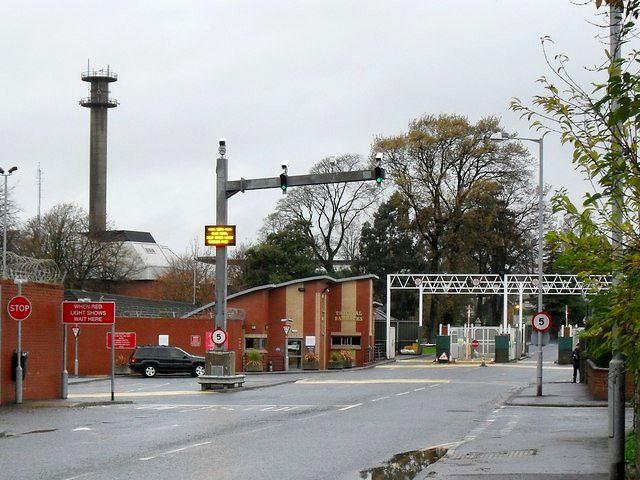 Thiepval Barracks, Lisburn. This massive site is the headquarters of the British Army in Northern Ireland - occupying quite a substantial chunk of North Lisburn. It also cuts the Magheralave Road in two. It is home to the 38th (Irish) Brigade and the 19th Light Brigade. Set in an affluent and predominantly Unionist area, the base hasn't managed to escape republican attacks - one soldier was killed in a car bomb in 1996.